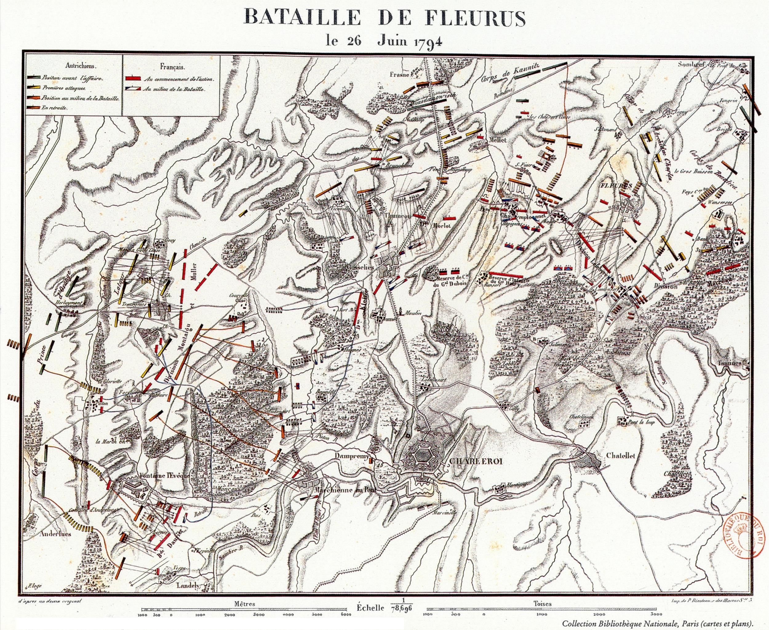 Map of the Battle of Fleurus 26th June 1794